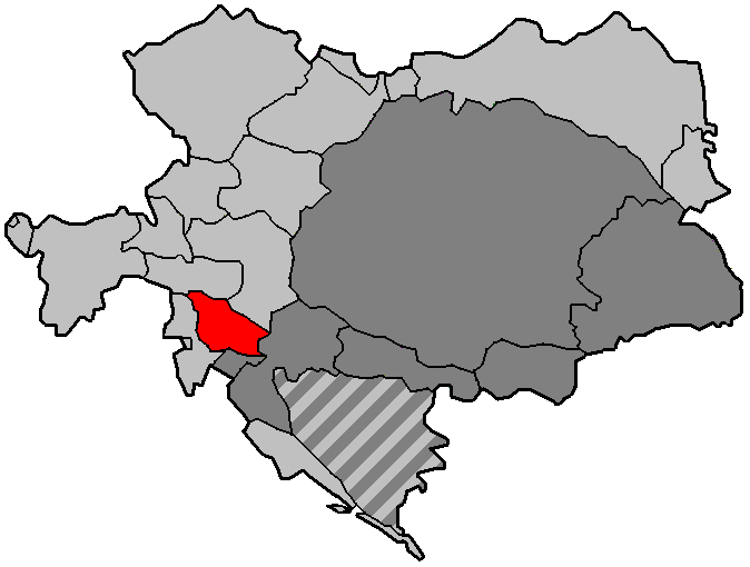 Map of Austria-Hungary